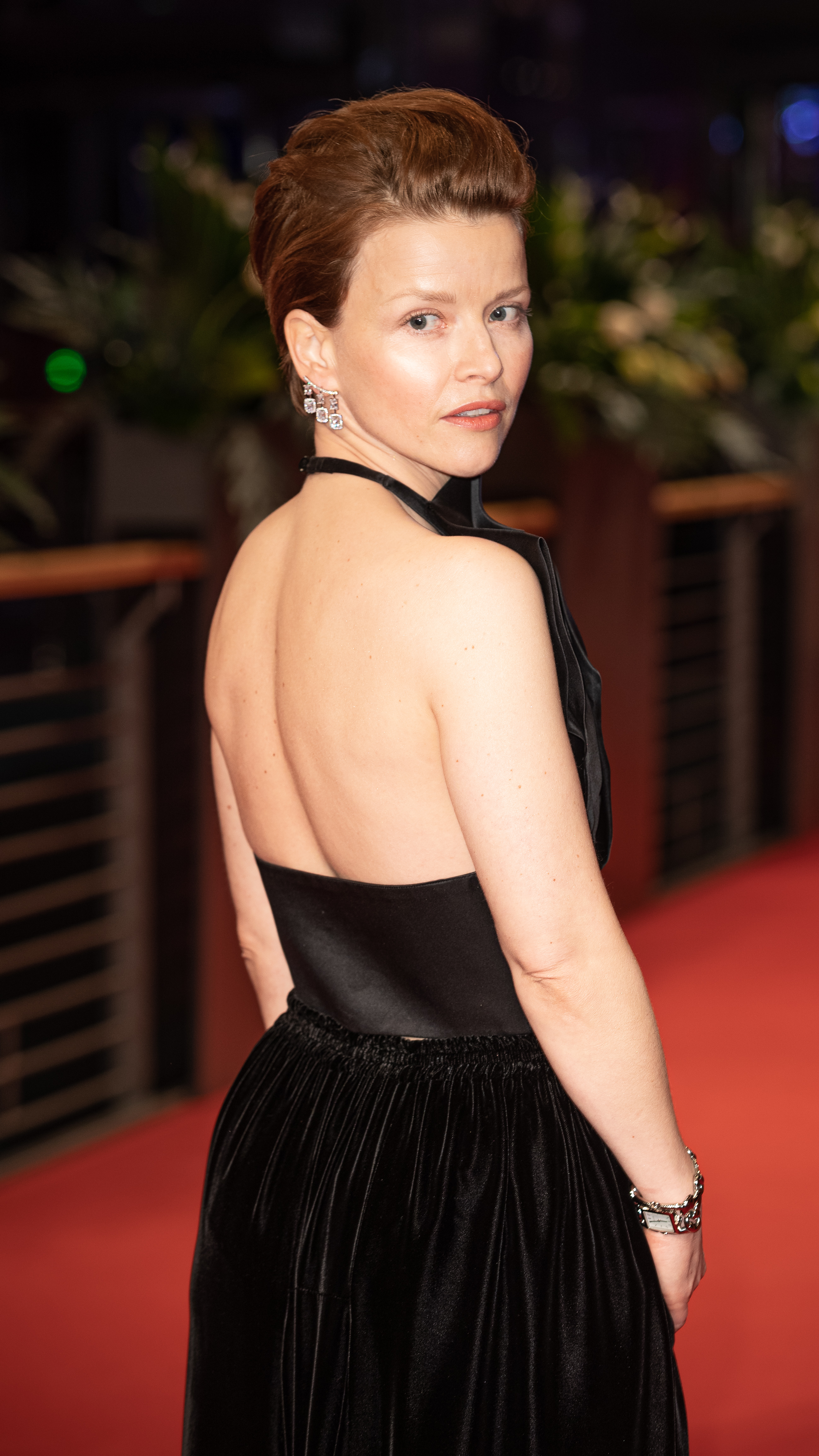 Karoline Schuch at Berlinale 2020